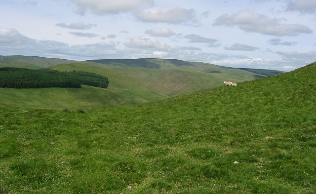 Cheviots. A cheviot ewe and lamb above Coquetdale on the southwest ridge of Shillhope Law. The distant hill is Windy Gyle, on the border.(619m)